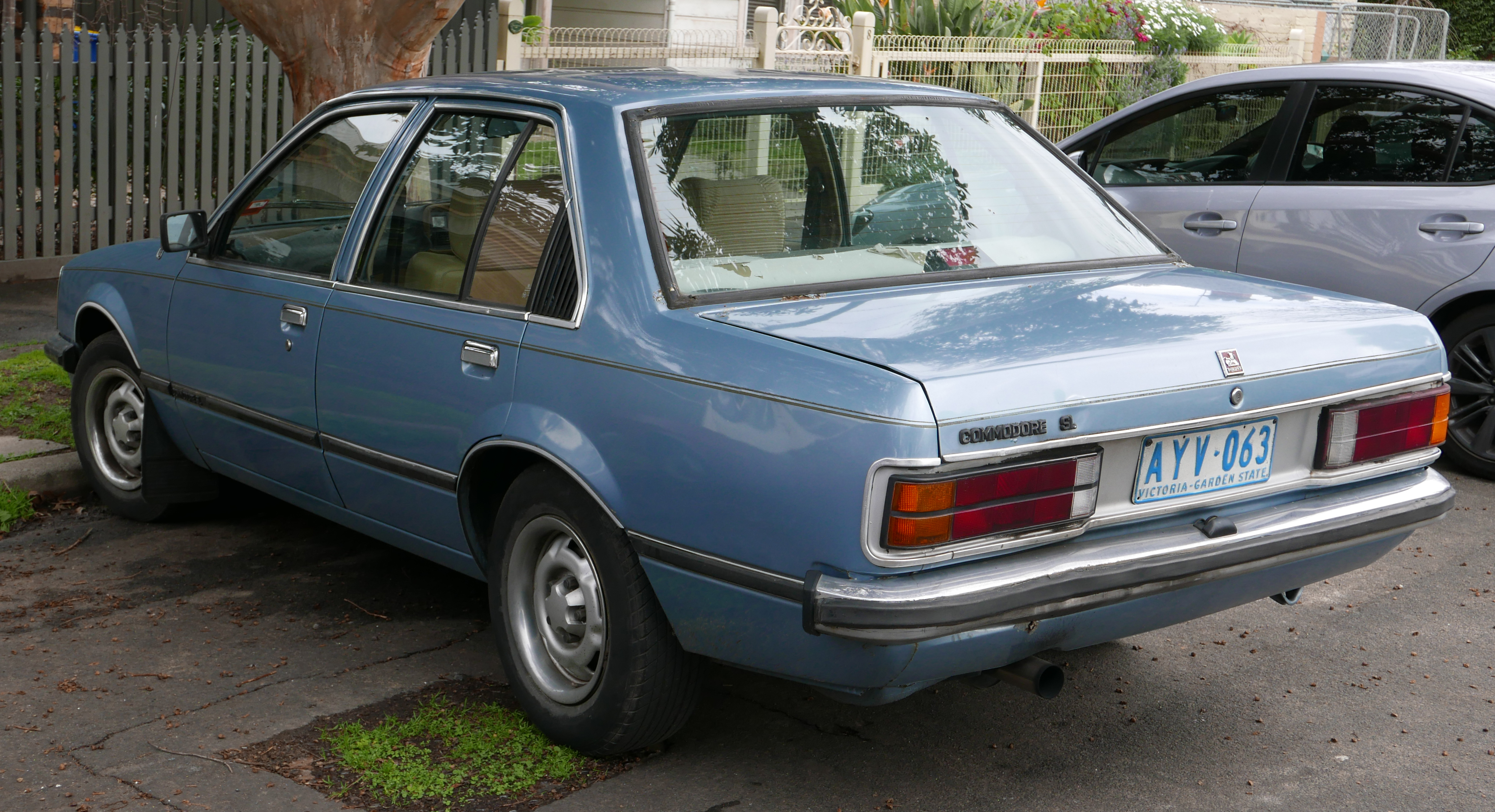 1980 Holden Commodore (VC) SL 3.3 sedan. Photographed in Hawthorn, Victoria, Australia. Vehicle registration enquiry results Jurisdiction Victoria Registration AYV063 Chassis code Not available Engine code VL183795 Compliance date Not available Year of manufacture 1980